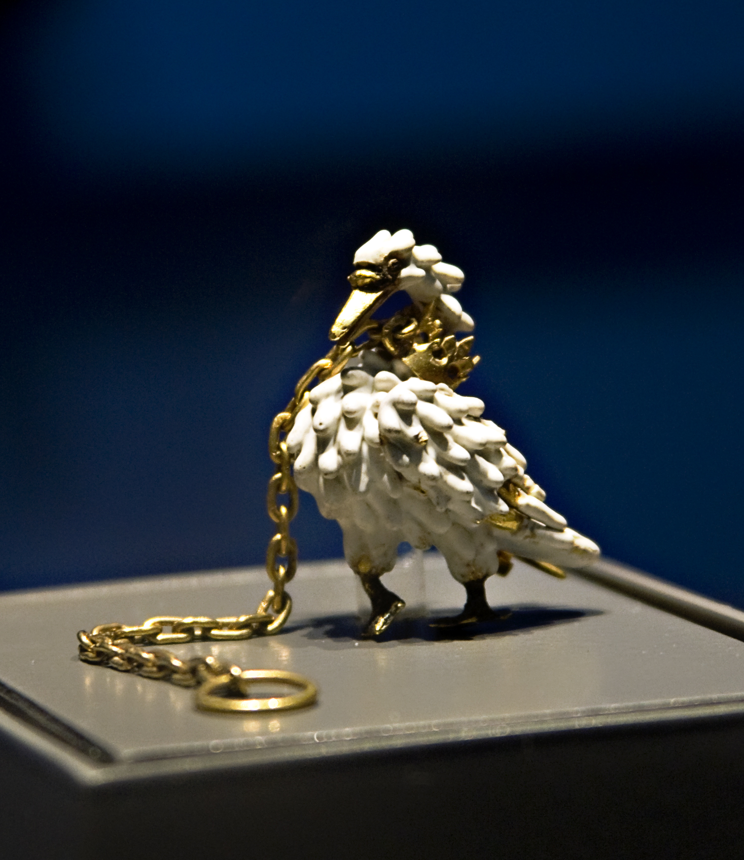 The Dunstable Swan Jewel from the British Museum. Tag on exhibit states: "The Dunstable Swan Jewel. Knights were sometimes eager to demonstrate their descent from the Arthurian knights, such as the legendary Knight of the Swan. The Dunstable Swan Jewel was found in a Dominican Priory, Dunstable. It may have been worn to indicate an allegiance to the de Bohun family or to the House of Lancaster. King Henry IV (reigned 1399-1413) took the symbol of the swan when he married Mary de Bohun in 1380. About 1400, England or France, gold, enamel. PE 1966,0703.1; purchased with a contribution from The Art Fund, The Pilgrim Trust and the Worshipful Company of Goldsmiths" See BM database entry for more details.